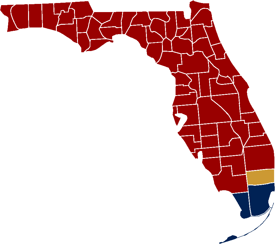 Outcome of same-sex marriage cases in Florida in state courts Same-sex marriage legal Judicial ruling against same-sex marriage ban, stayed pending appeal Same-sex marriage banned prior to federal court decision